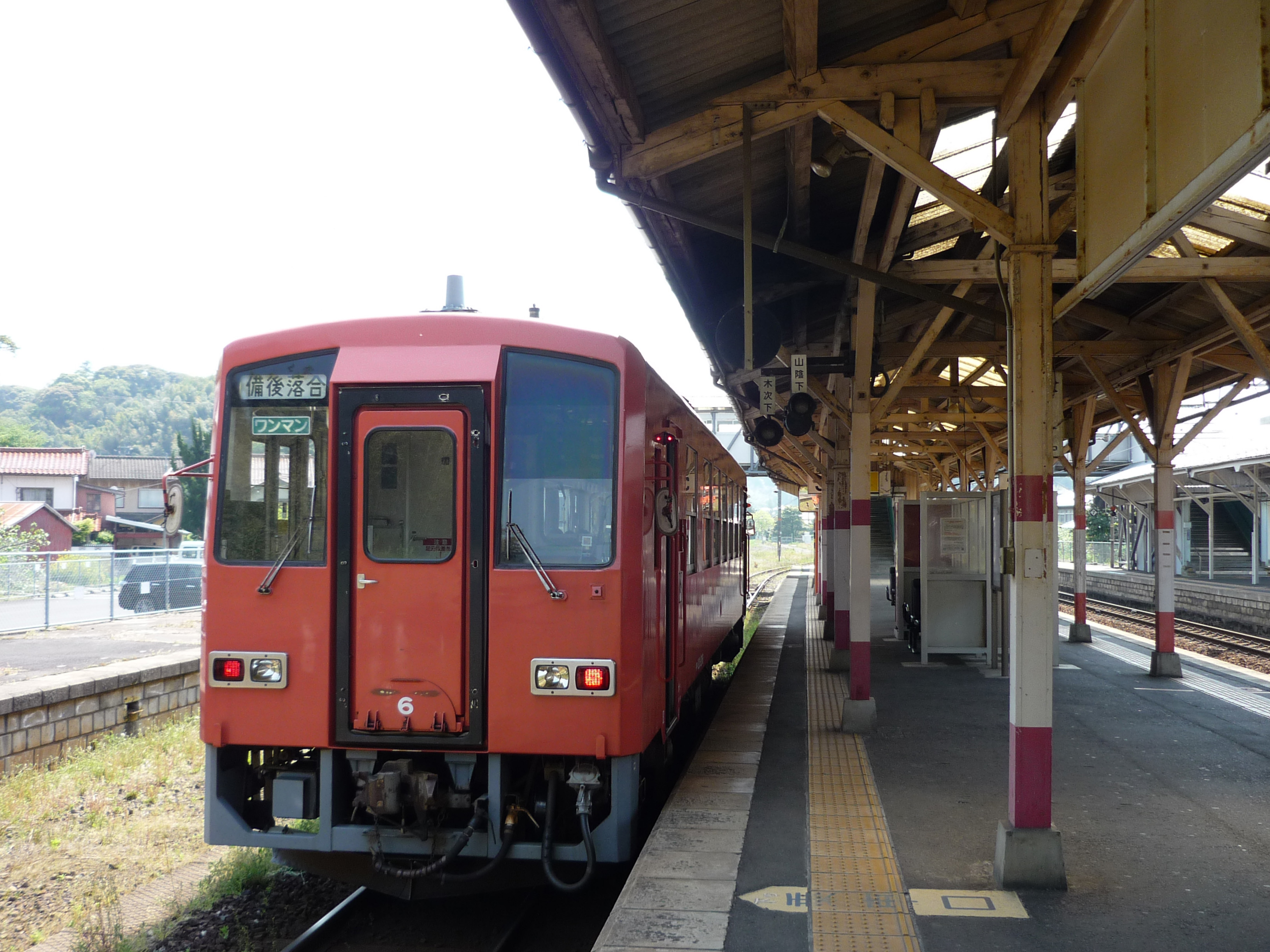 JR West KiHa 120 series DMU car KiHa 120-206 at Shinji Station on the Kisuki Line